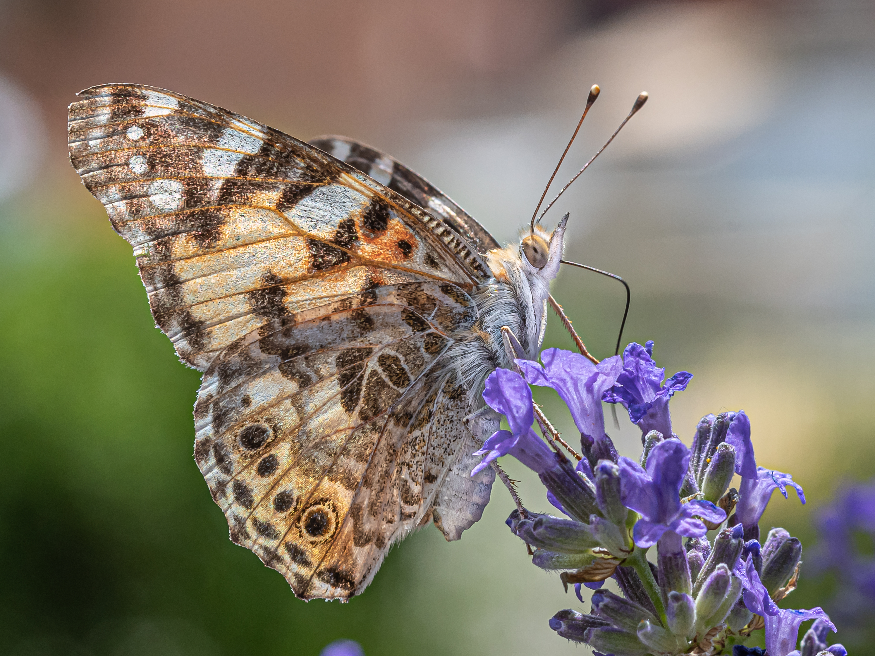 Vanessa cardui on Lavandula angustifolia, June 2019, Upper Austria